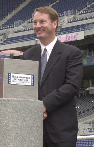 Seattle Seahawks president Bob Whitsitt at grand opening of Seahawks Stadium (later Qwest Stadium, then CenturyLink Field), 2002, Seattle, Washington, U.S.